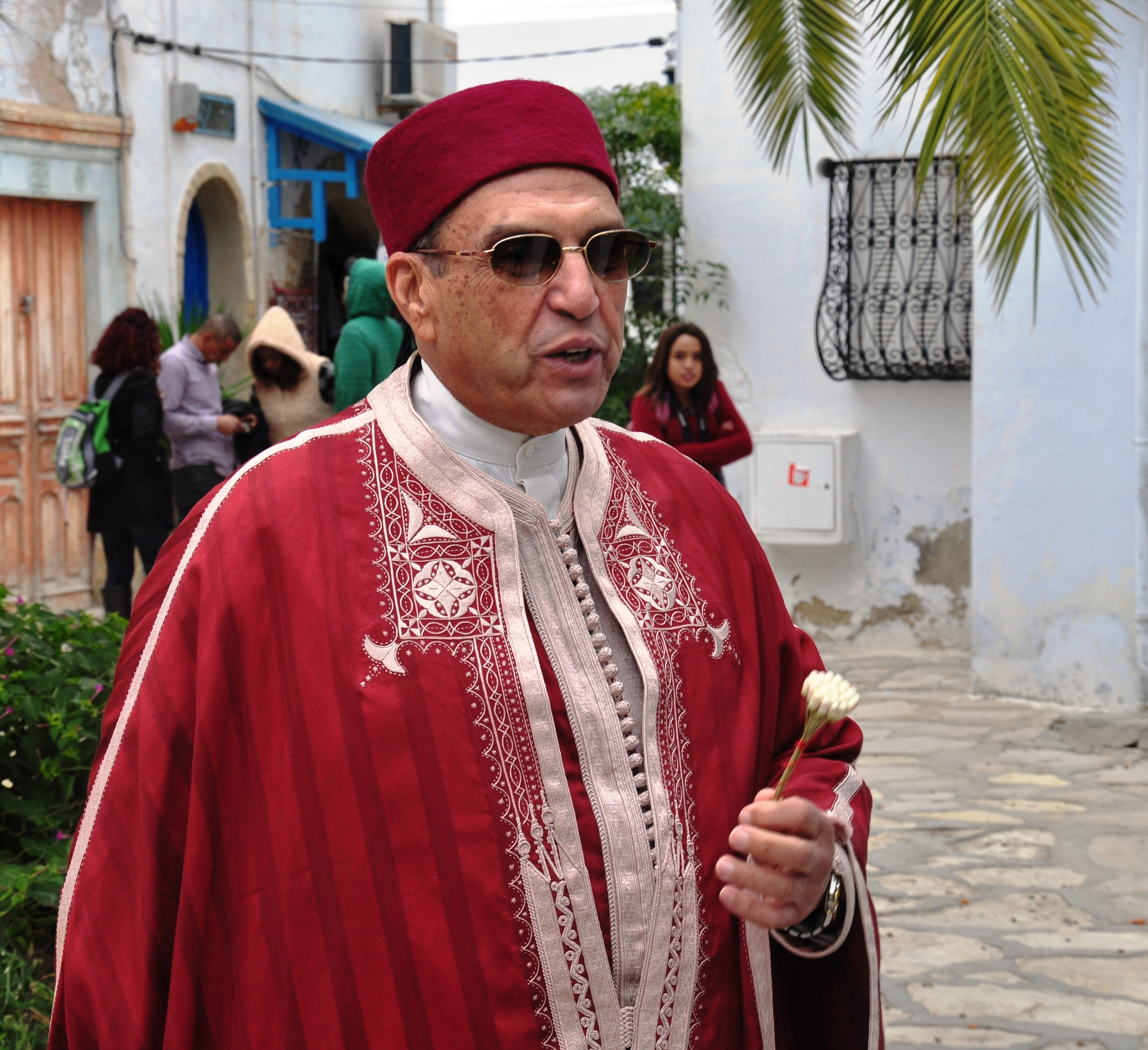 This is an image of Cultural Fashion or Adornment from Tunisia